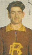 A Brighton FC player in team colors.